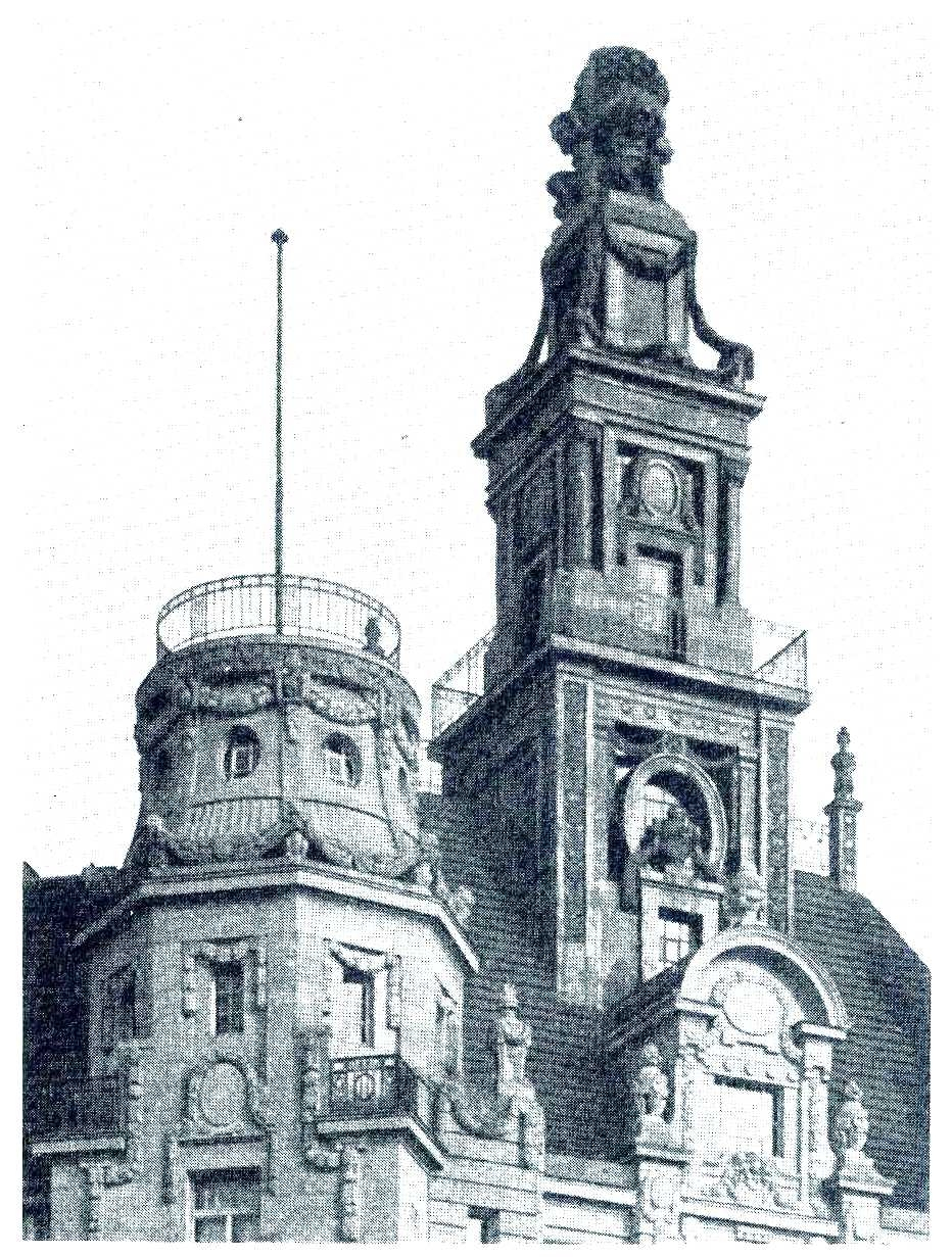 Haus Wiener Platz 1 Ecke Prager Straße Dresden